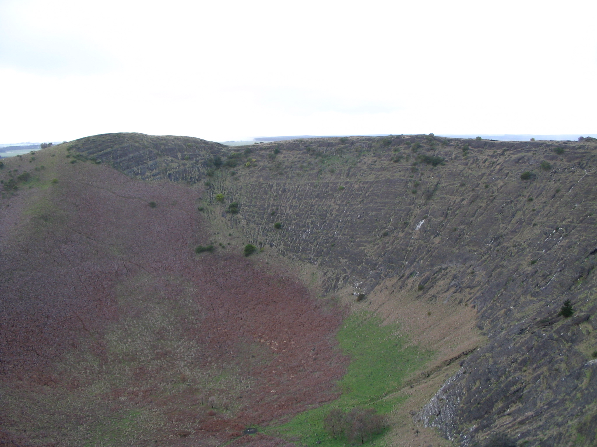 Photo taken by Acacia Kelly